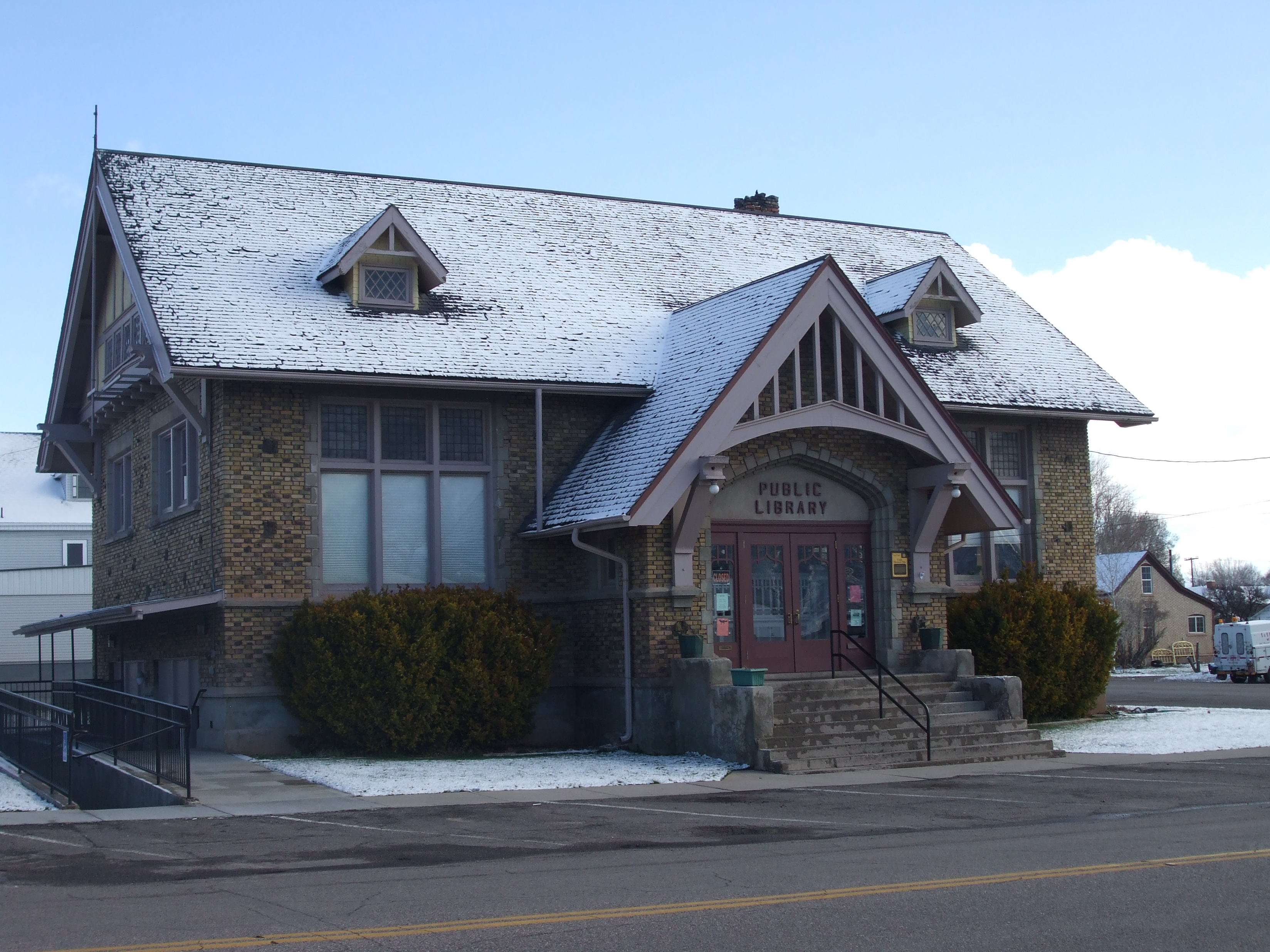 The Richfield Carnegie Library, a historic building in Richfield, Utah, United States.